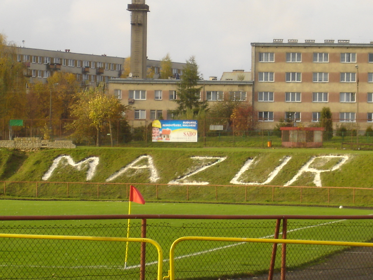 Football stadium in Elk, Poland